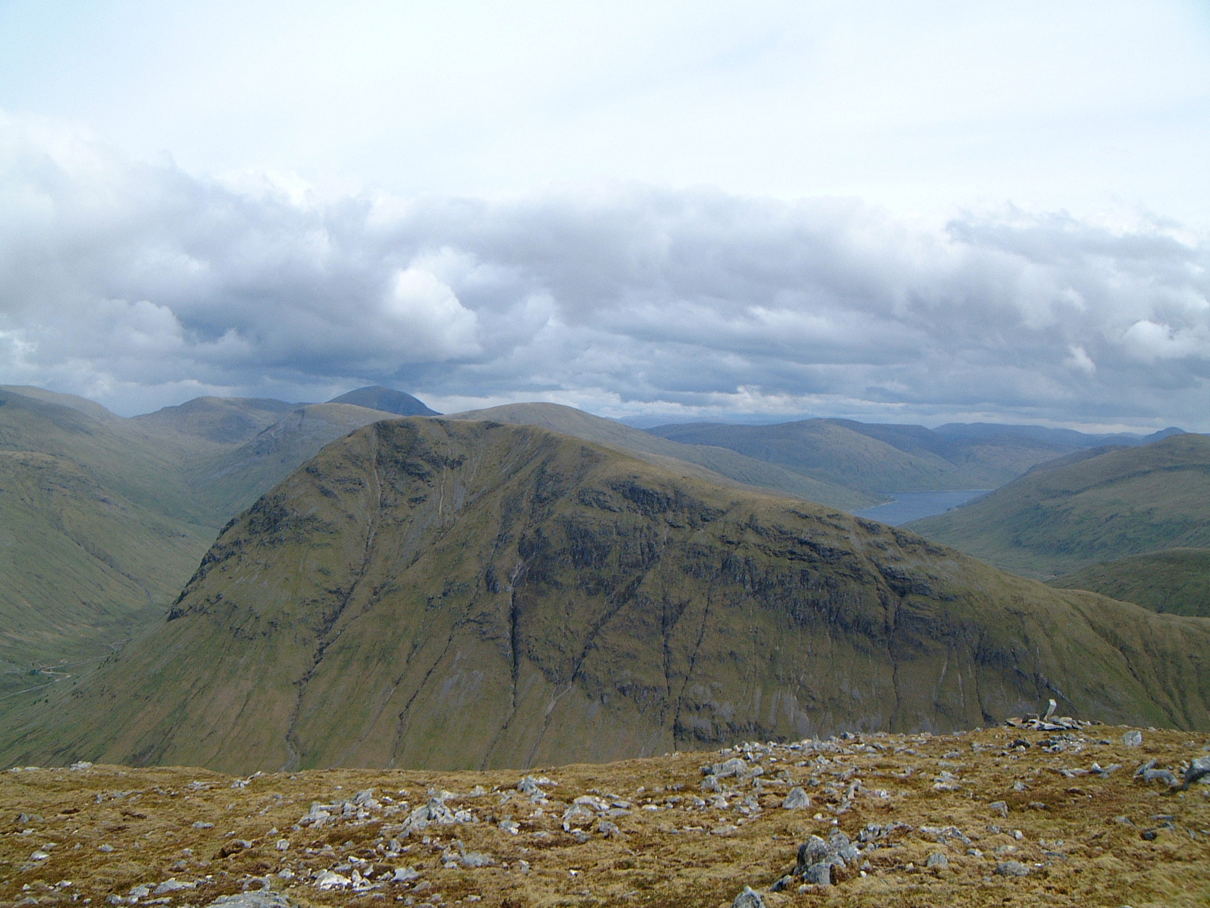 Beinn a' Chaisteil near Bridge of Orchy seen from Beinn Odhar